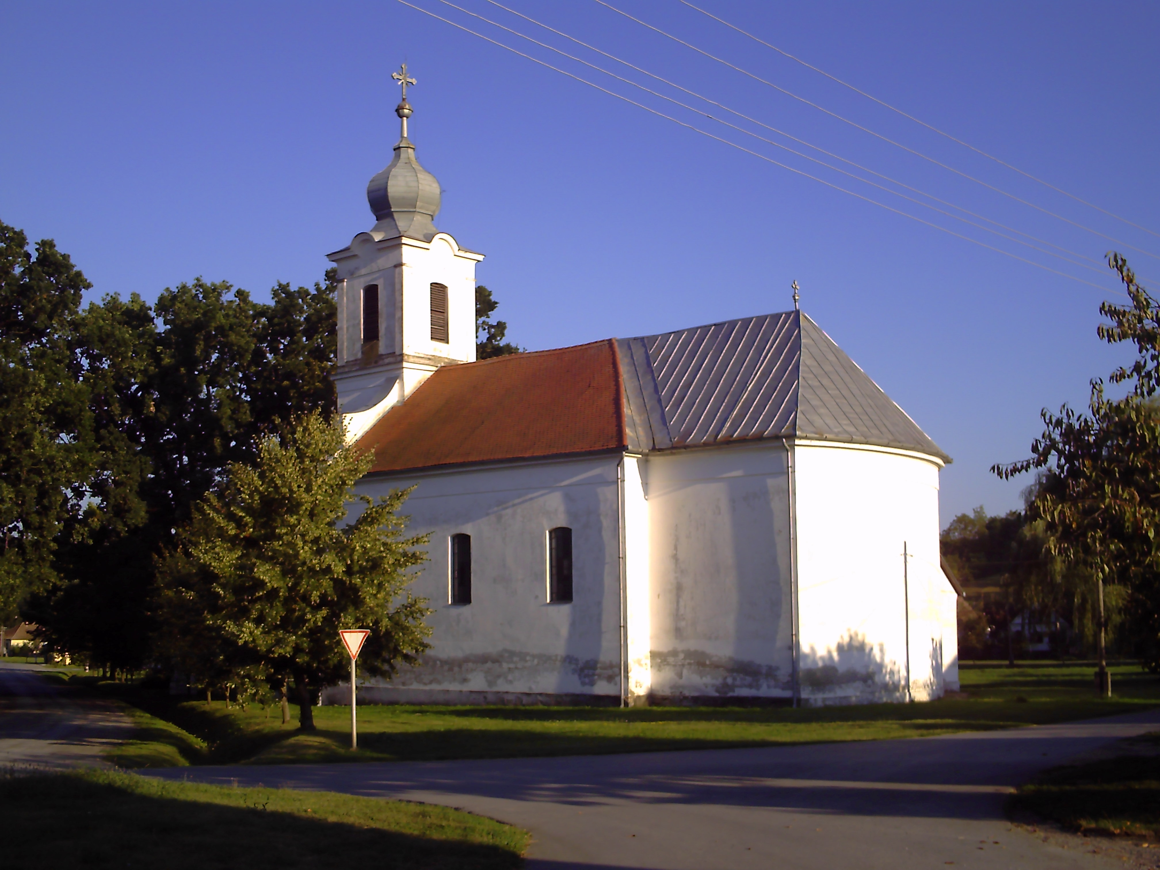 sideview of the church of Szulimán.